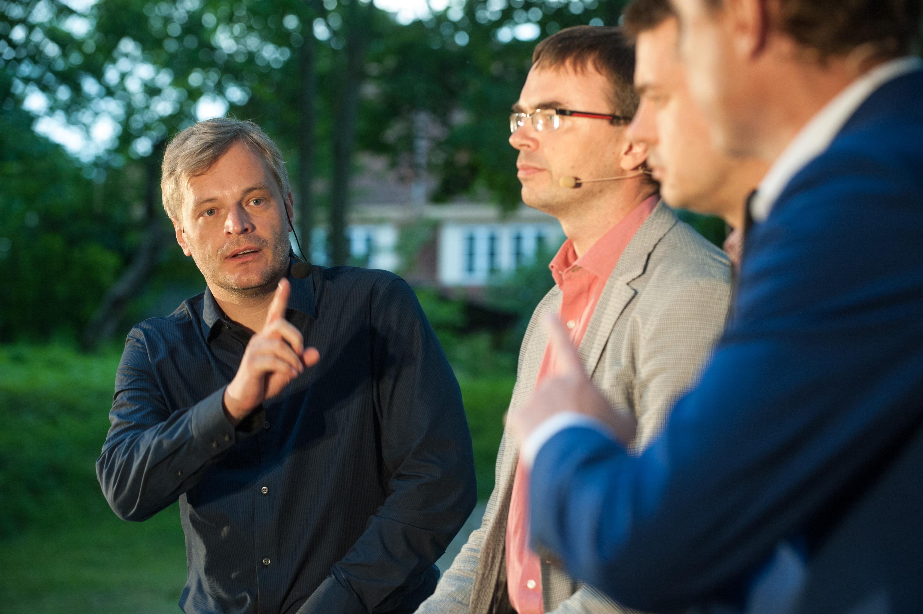 Arvamusfestival 2014: Parlamendierakondade juhtide debatt